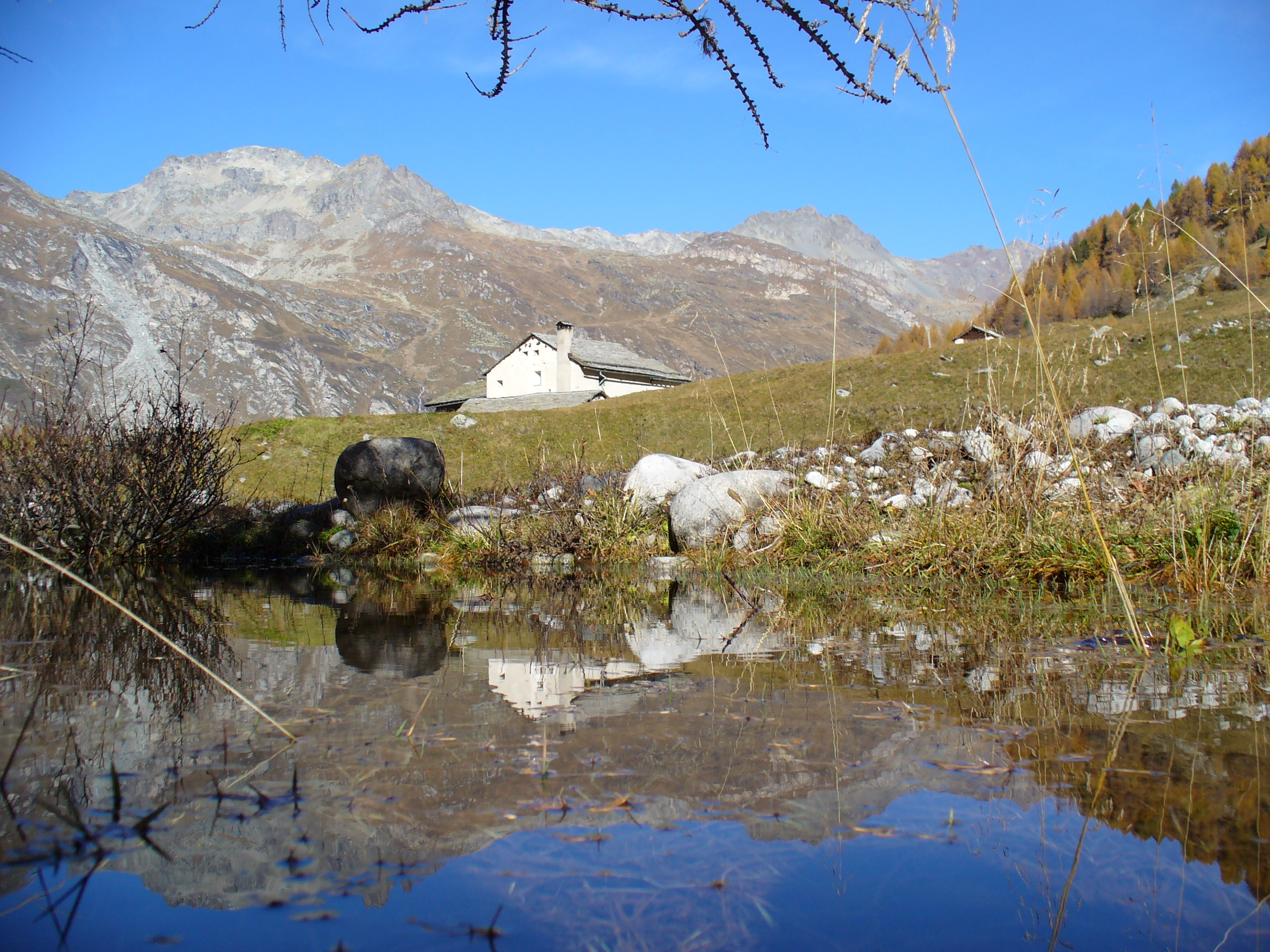 Salecina, view from the Southeast from above the nearby brook named Orlegna, specular reflection, mirroring